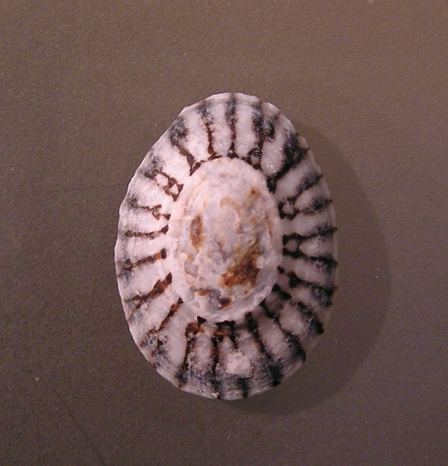 Lottia strigatella Carpenter, 1864, a limpet from the family Lottiidae; Baja California